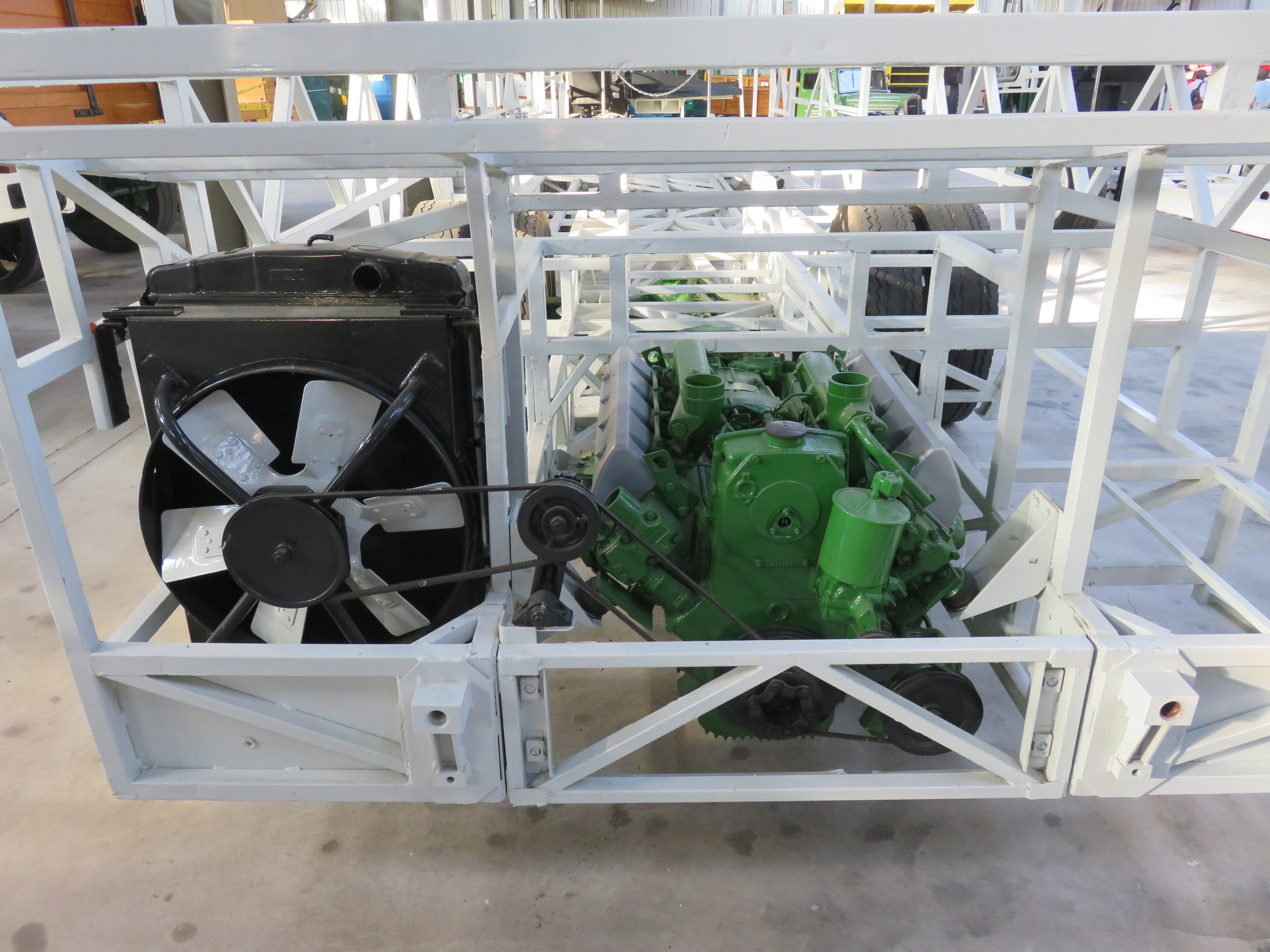 The engine of a BerlietPR 100 conserved at the Fondation Marius Berliet (Le Montellier, France) on October 20, 2018.